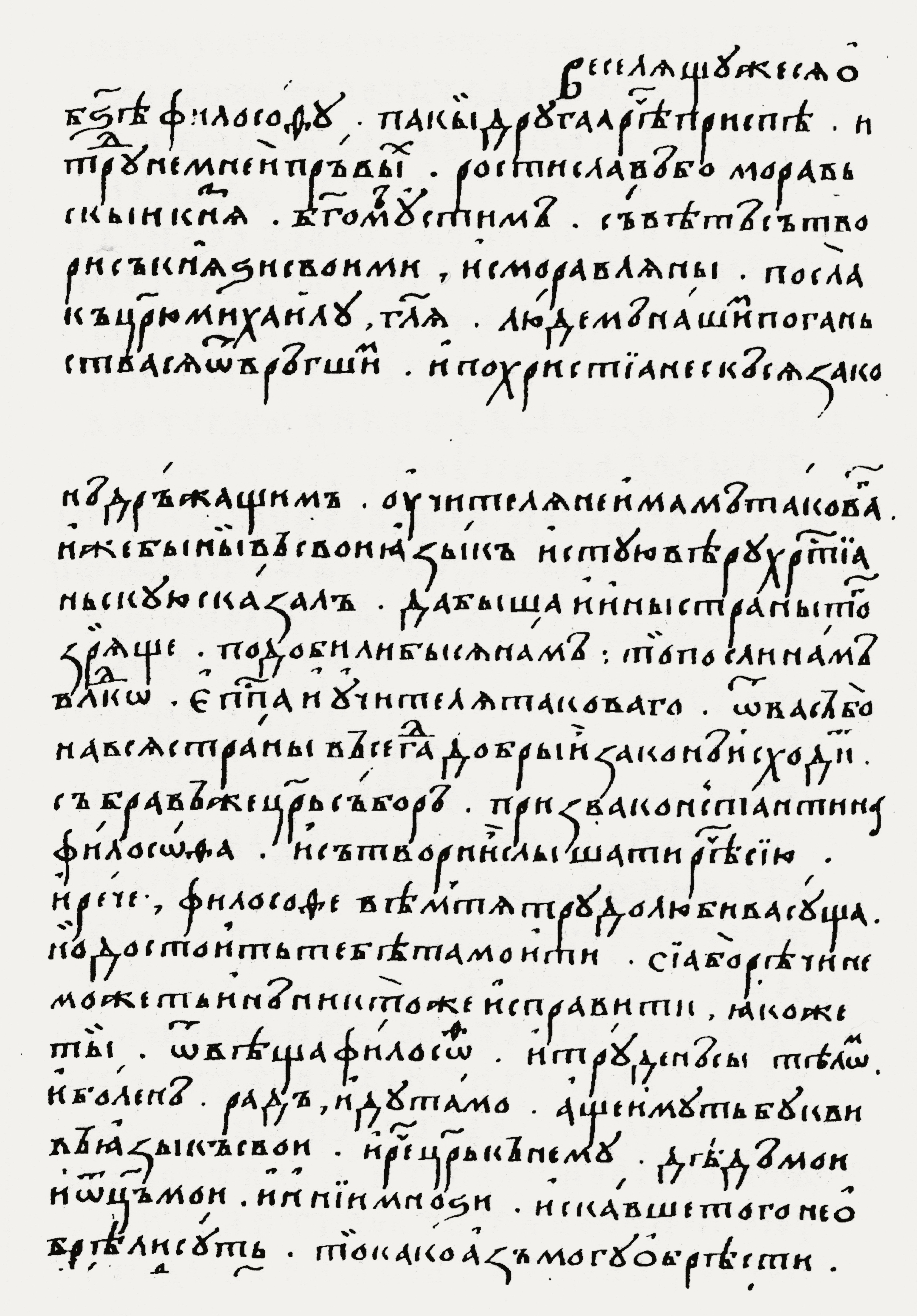 Cyrillic text from the 14th chapter of the legend Life of Constantine. Manuscript from the 15th century in the collection of the Spiritual Academy in Moscow. Reproduction in O. Bodjanski: Snimki k sočineniju O vremeni proischoždenija slavjanskich pisьmen (Moskau 1855).